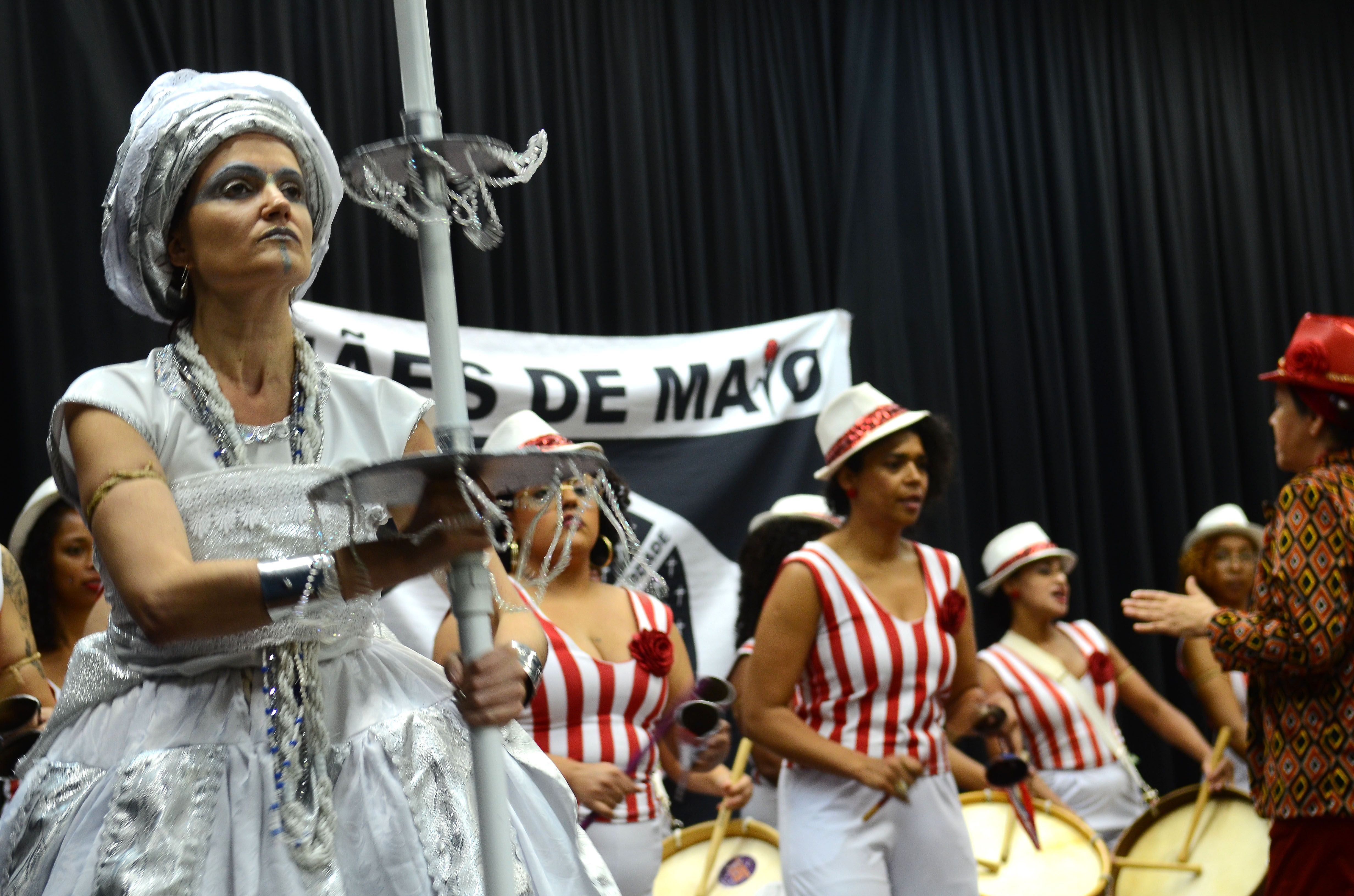 Percussion group Ilú Obá De Min performs in São Paulo (Photo by Rovena Rosa/Agência Brasil)